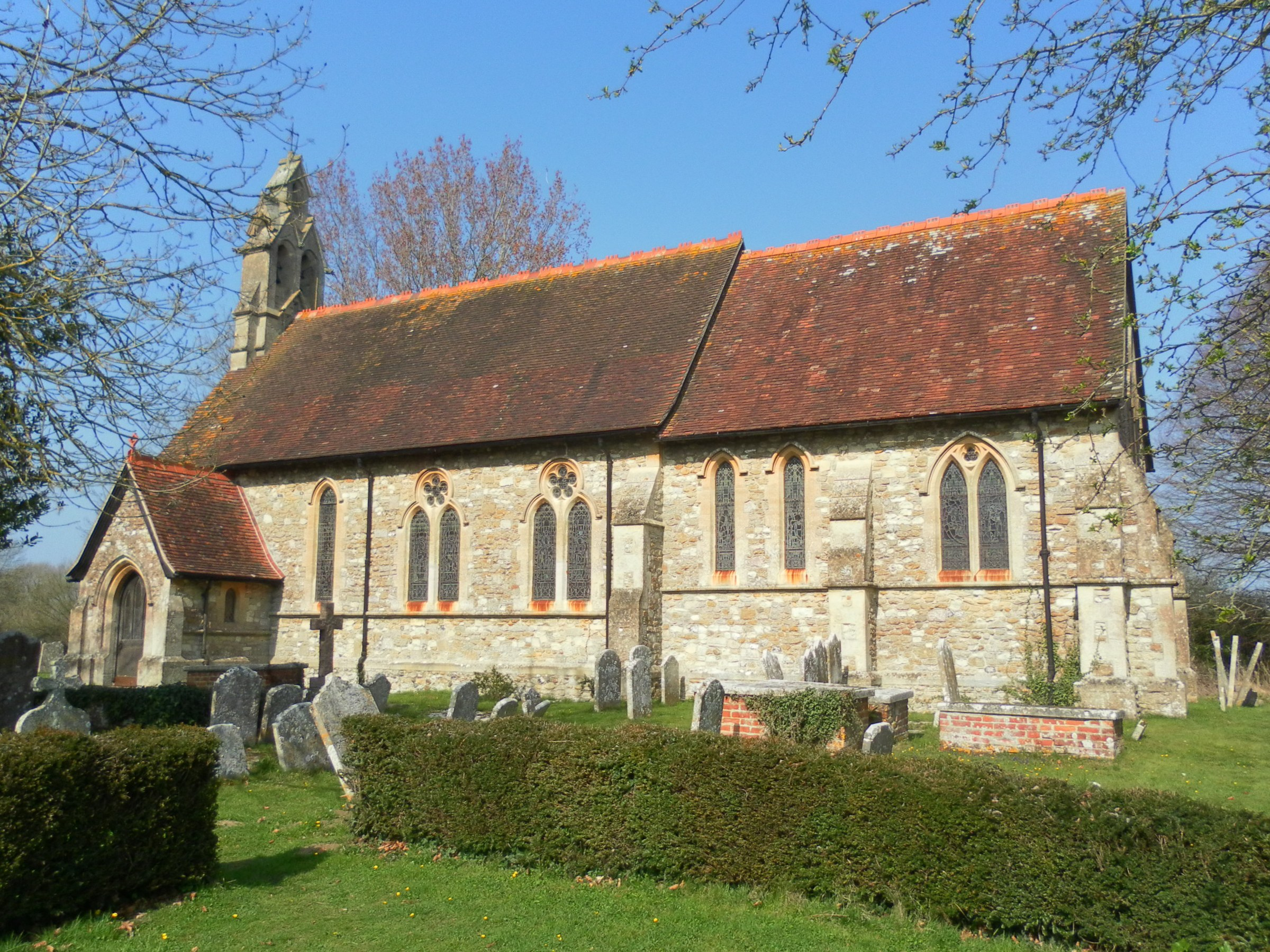 St Leodegar's Church, Hunston, District of Chichester, West Sussex, England. The Anglican parish church of the village of Hunston.